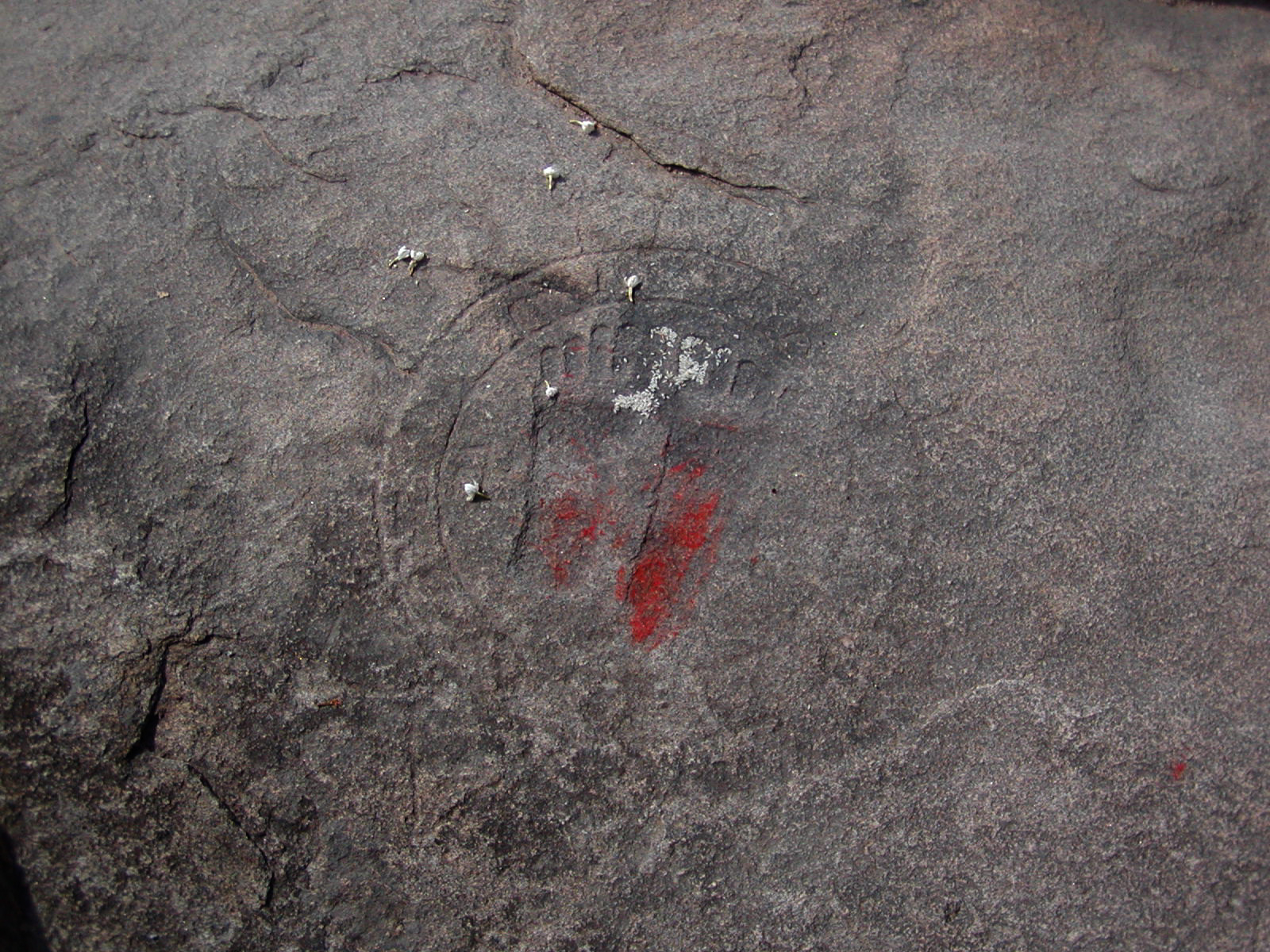 Rock edit (inscription) at Shravanabelagola, Karnataka, India.